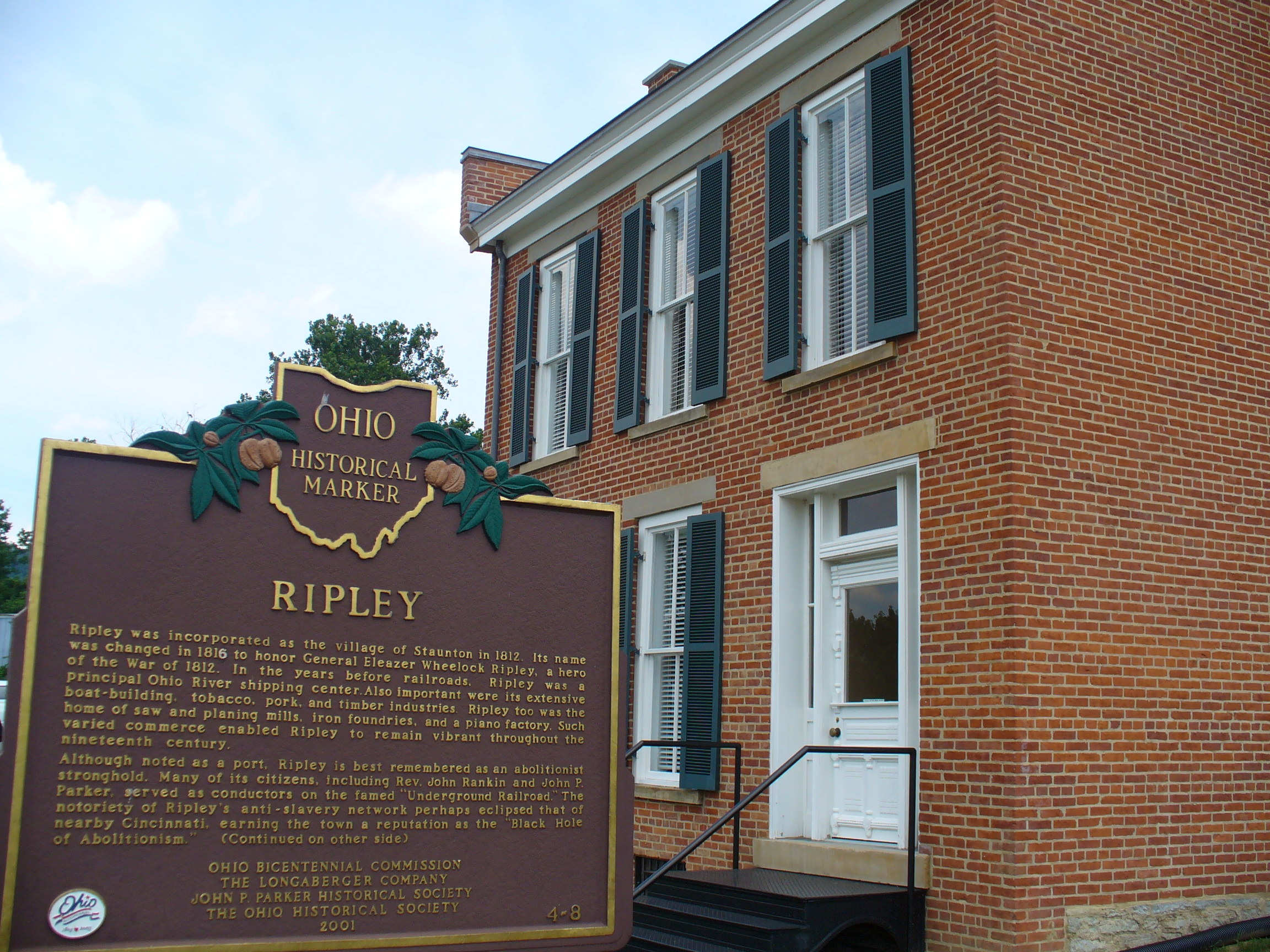 Taken by me.